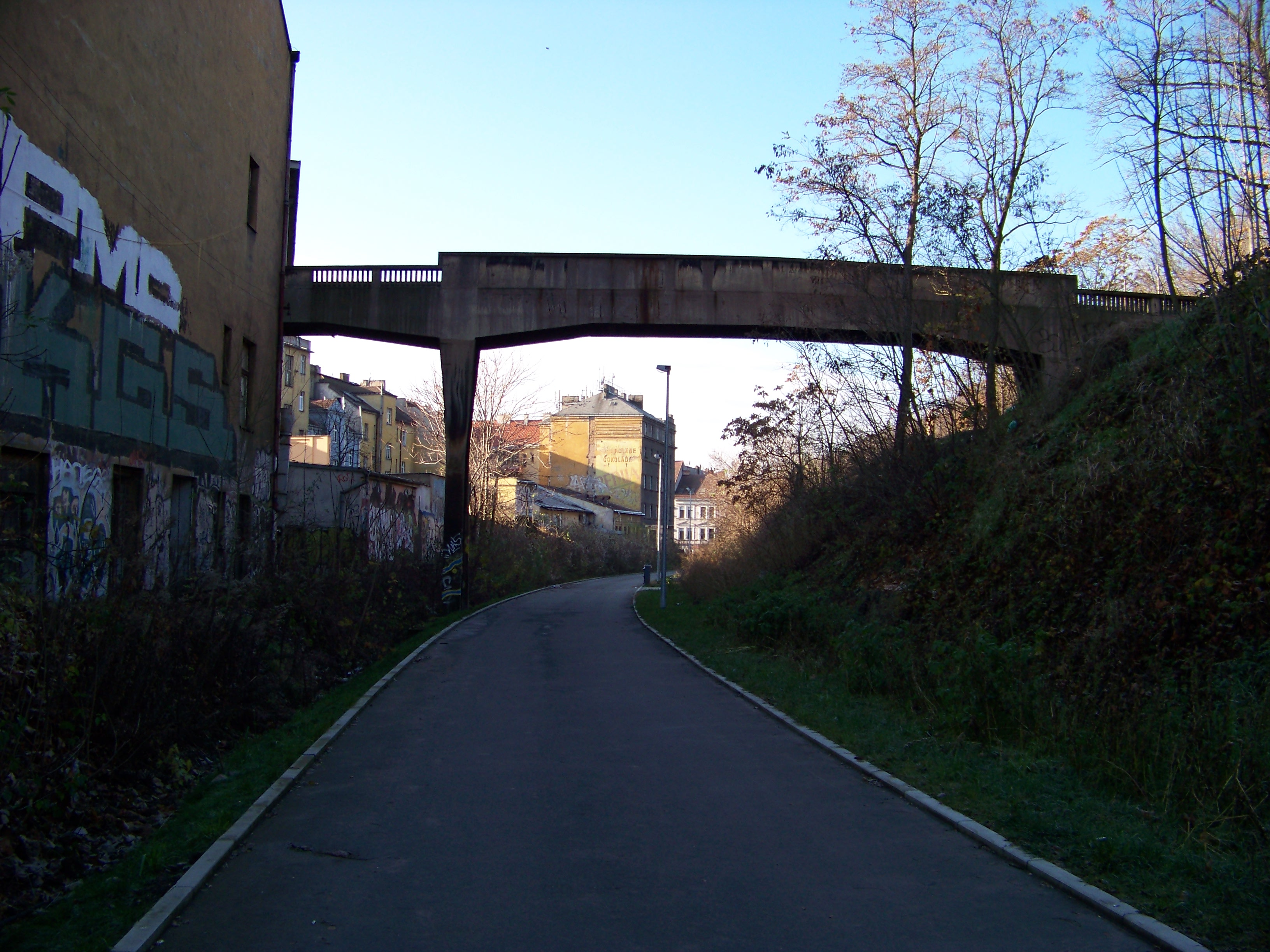 Prague-Žižkov. The bikeway on the former railway track Prague–Turnov. A Sokol footbridge to playing fields.